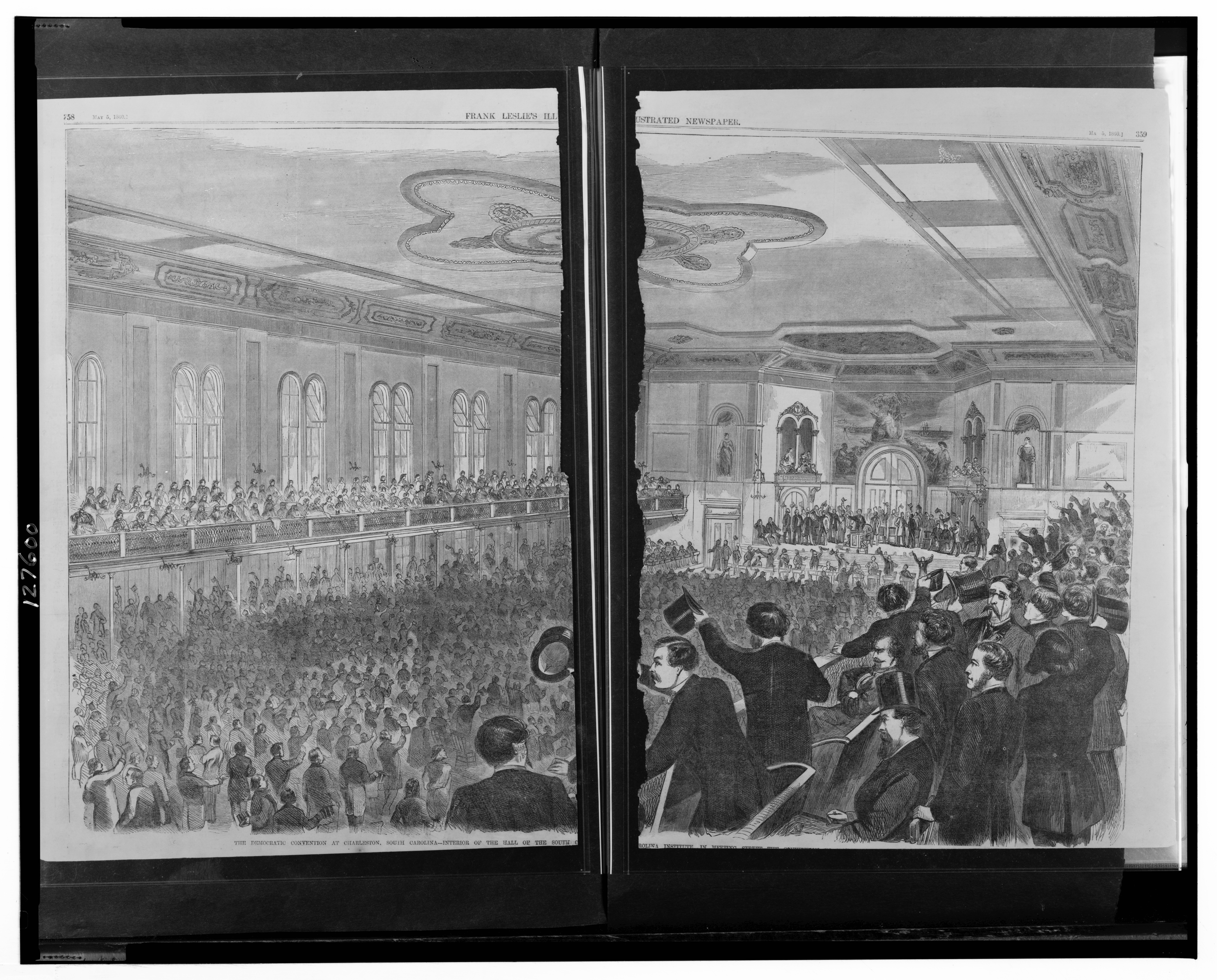 Wood engraving of the 1960 Democratic National Convention in Charleston "The Democratic convention at Charleston, South Carolina - Interior of the hall of the South Carolina Institute in Meeting Street the [...]"